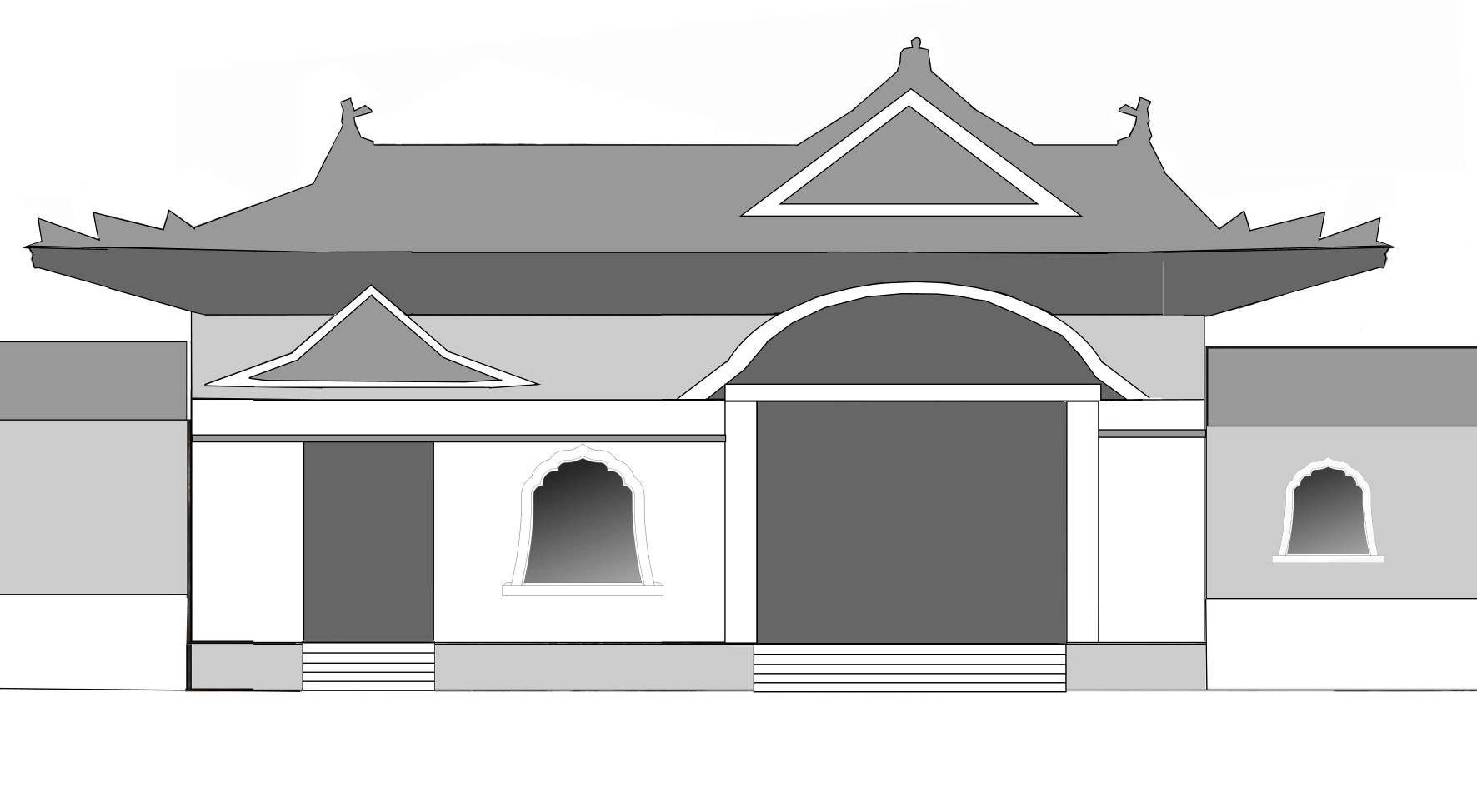 Laout of Tôkô-in Hagi-no-tera at Toyonaka (Osaka prefecture, Japan).